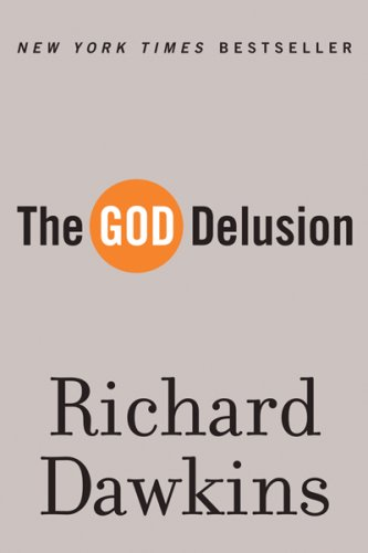 Cover Richard Dawkins' God Delusion